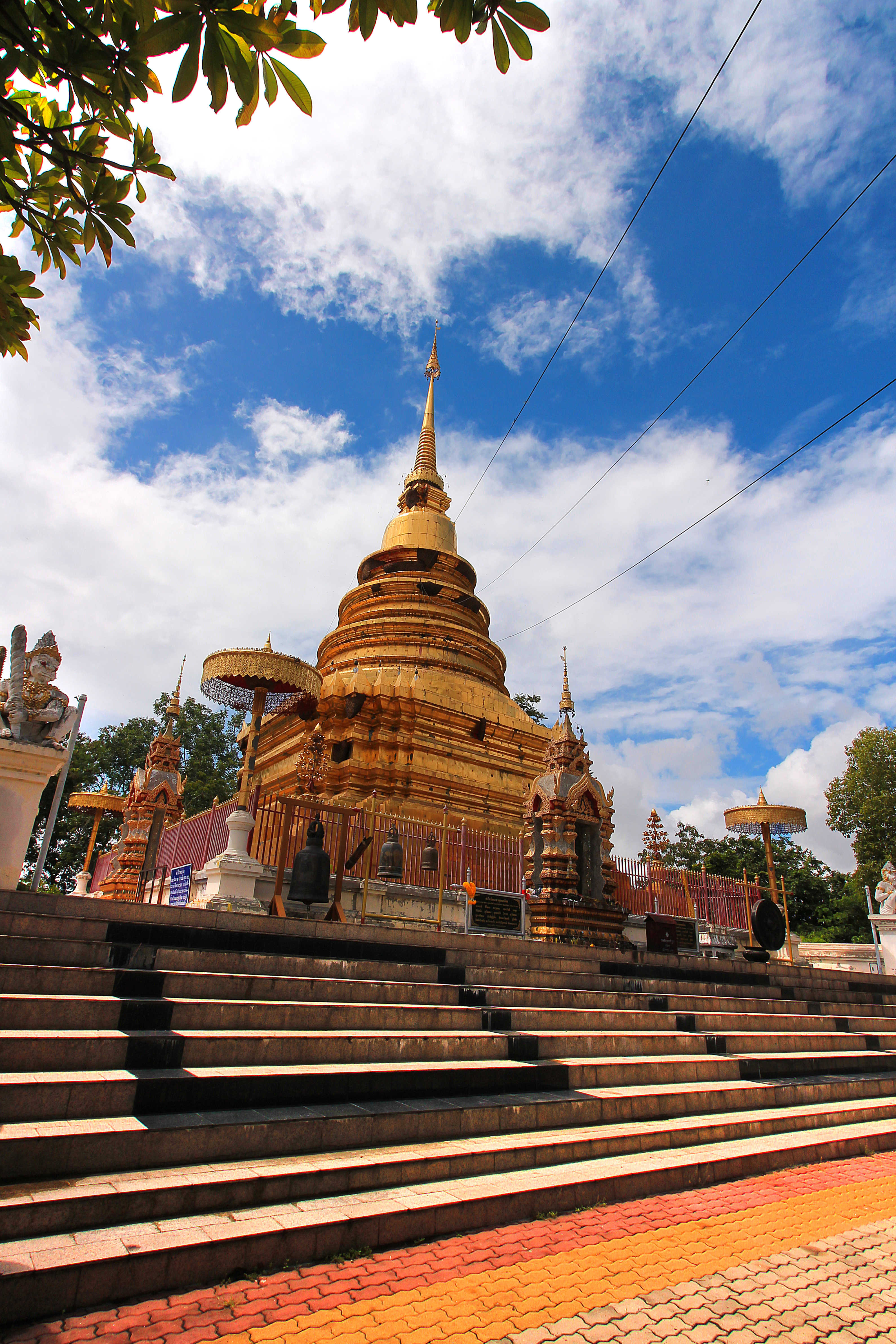 This Buddhist monastery was built by Queen Chamthewi in A.D. 658.